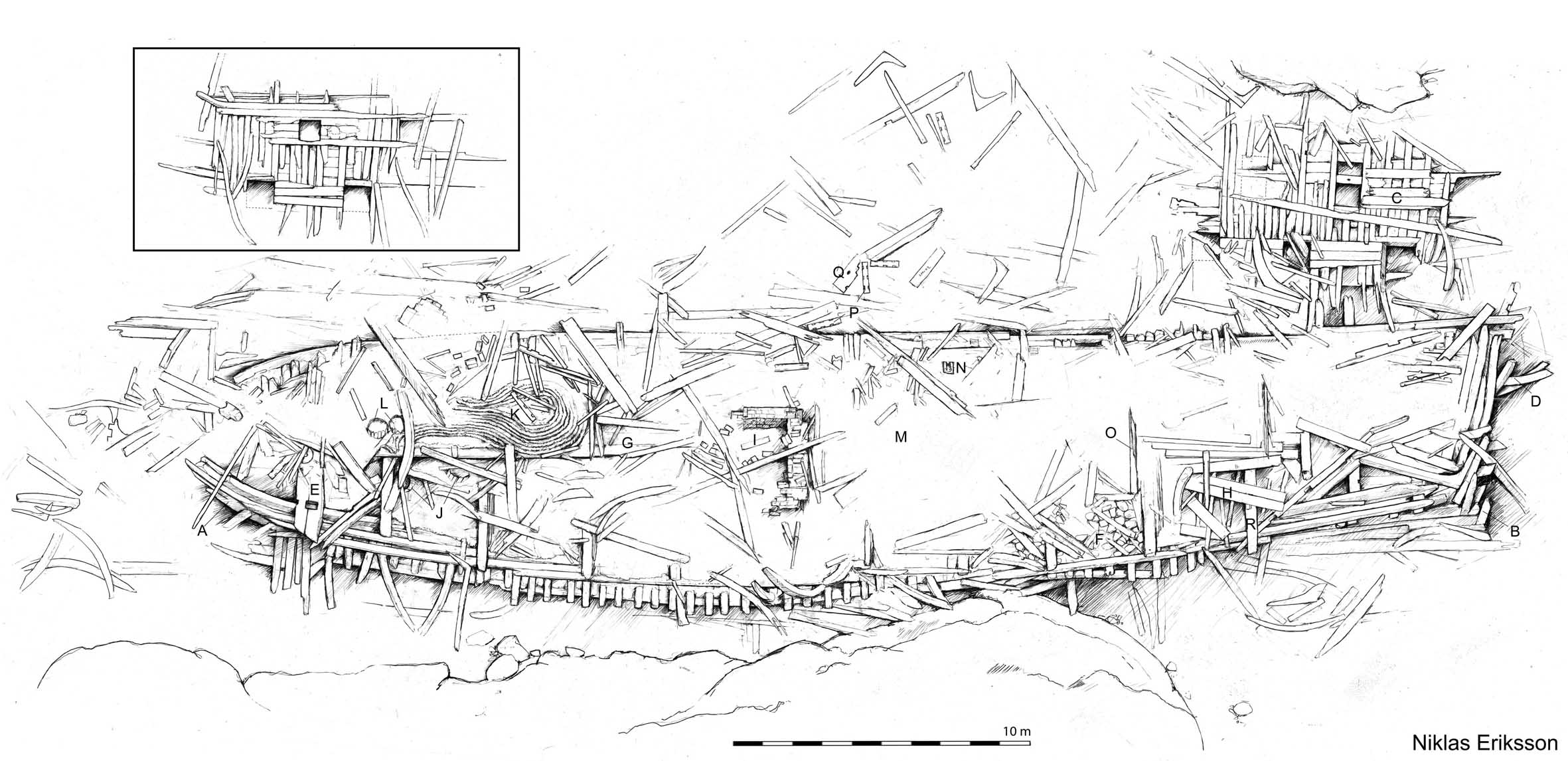 The Riksäpplet-wrecksite outside Dalarö in the Stockholm Archipelago Sweden. The Ship was built in Gothenburg and finished in 1663 and armed with 84 guns. In June 1676, the ship came adrift in a storm, struck a rock and sank. On the site plan the bow pointing to the left. The portion up to the left which is framed by a rectangle is located around 50m astern of the ship. A: stem, B: sternpost, C: starboard side preserved up to the upper gundeck, D: planking, which reveals the characteristic English ‘round tuck’, E: foremast step, F: stone ballast, G: orlop, H: remains of a platform on the orlop, I: galley, J: barrels containing tar stowed into the hold, K: anchor cable on the orlop, L: barrels on the orlop, M: area containing firewood, N: pump sale, O: pump tube, P: carlings, Q: gun carriage, R: mizzenmast step (Niklas Eriksson).